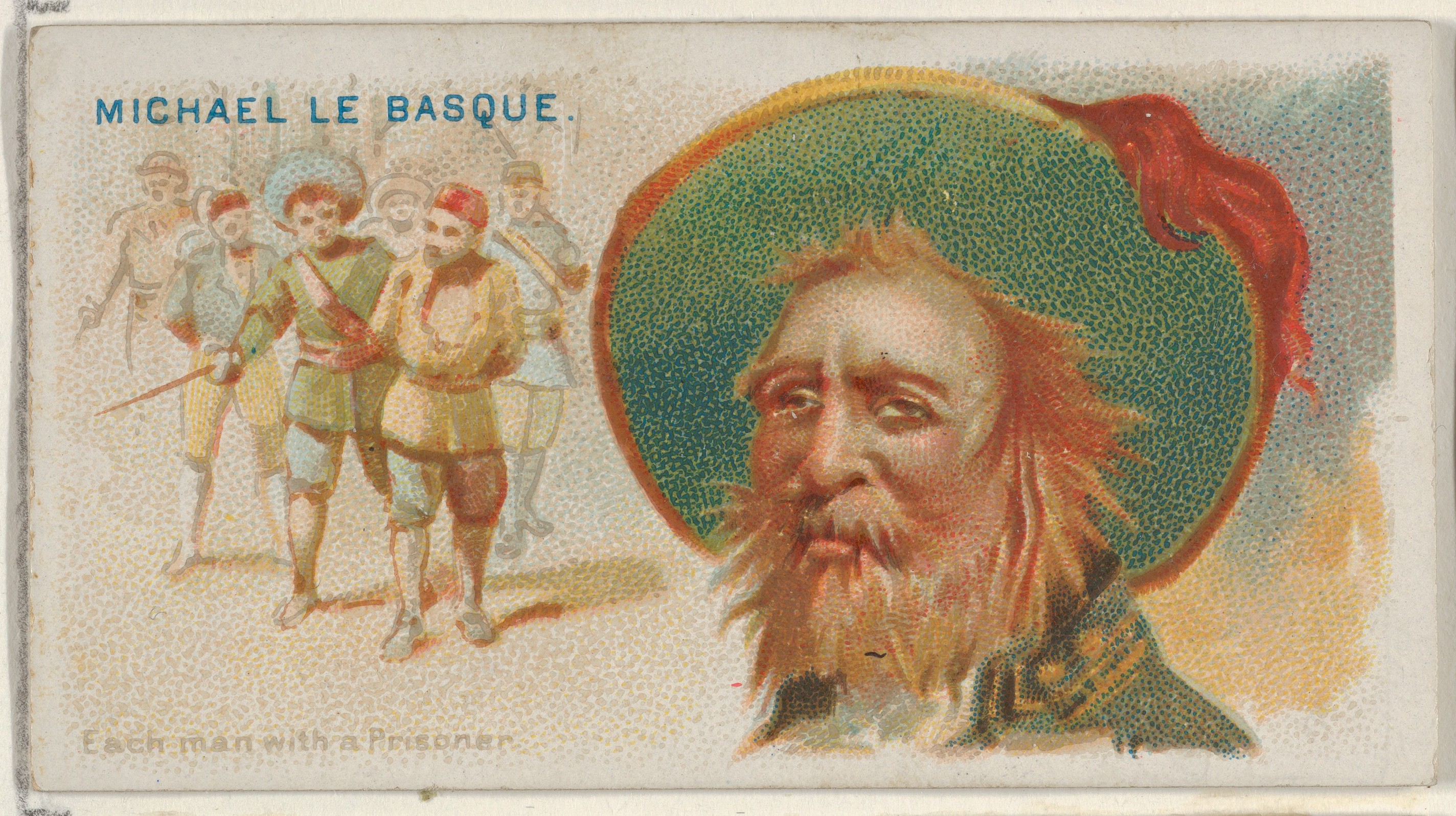 Print; Prints